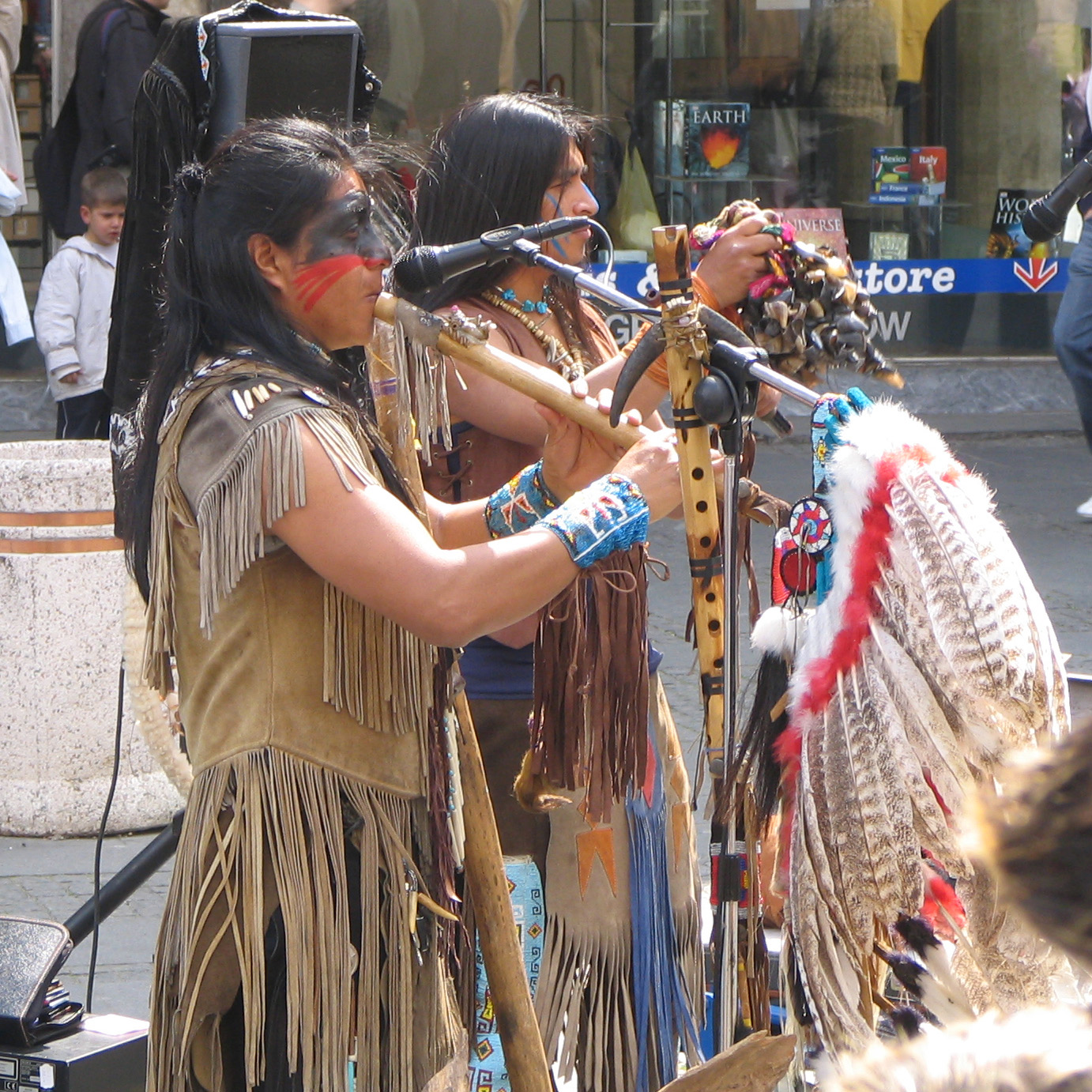 Latinoamerican Flutes in Belgrade